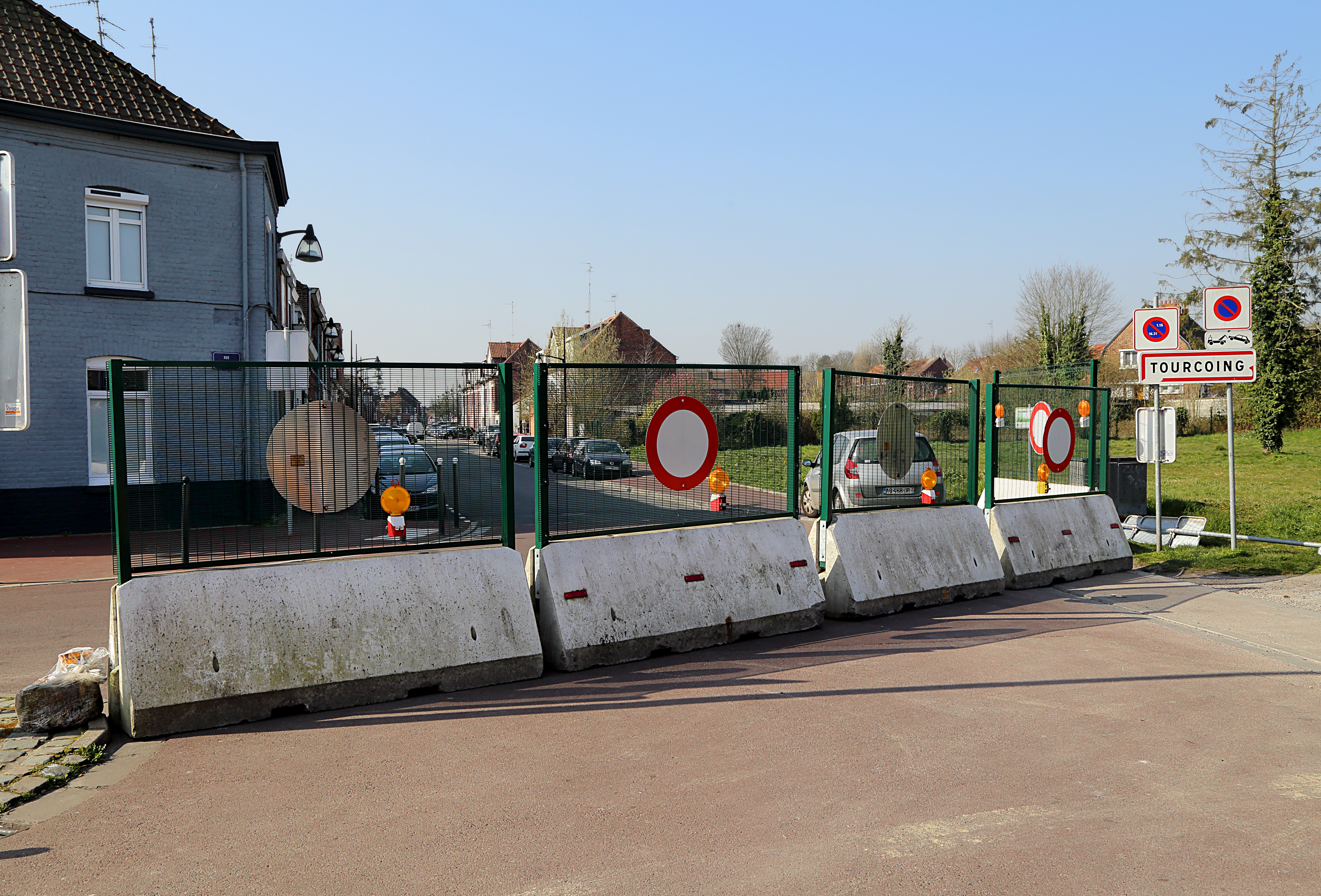 Border (rue du Couët) in Mouscron, Belgium closed due to the Covid-19 pandemic. This border separates Mouscron from Tourcoing, France.